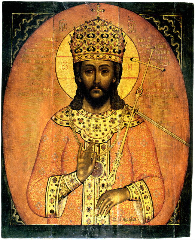 Царь царём (a 17th-century icon from Murom)